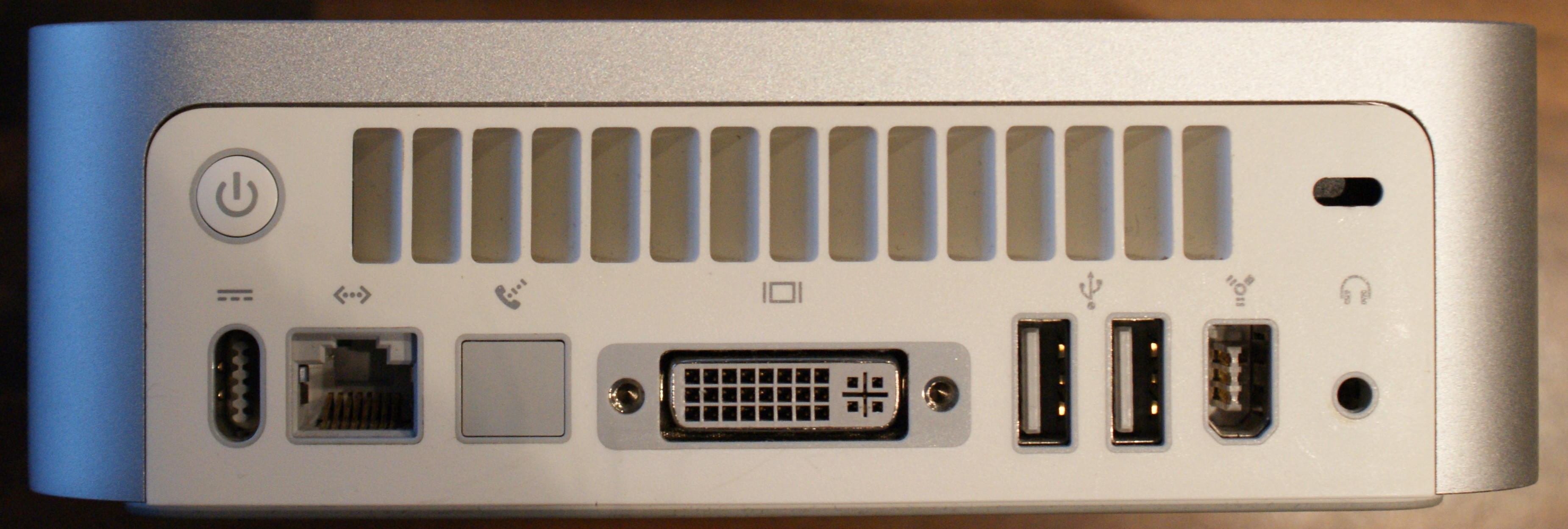 Original Mac mini from 2005, model number A1103, order number M9687LL/B, model identifier PowerMac10,2, "Late 2005" also known as "Silent Upgrade" 1.5 GHz PowerPC 7447a "G4", back side. Visible are the connectors (from left to right): DC power input, 10/100BASE-T Fast Ethernet RJ-45 LAN connector, modem connector blanked, DVI-I digital video output, two USB 2.0 ports, FireWire-400 and an analog audio jack.